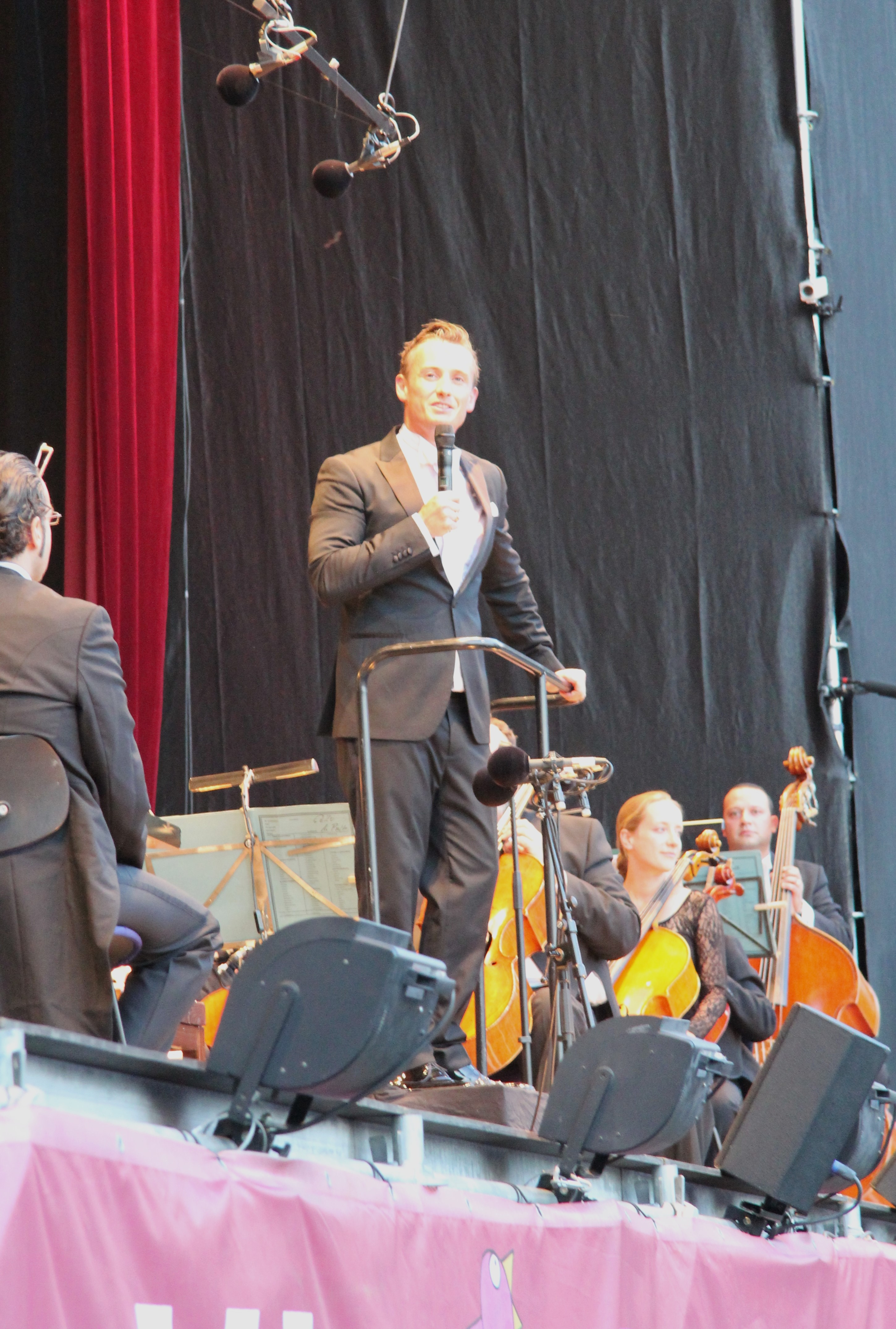 Klassik Open Air 2012, Nuremberg, conductor Alexander Shelley is entertaining the crowd